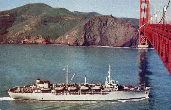 The U.S. Military Sea Transportation Service transport USNS General C. G. Morton (T-AP-138) passing under the Golden Gate Bridge, San Francisco, California (USA), in the 1950s.